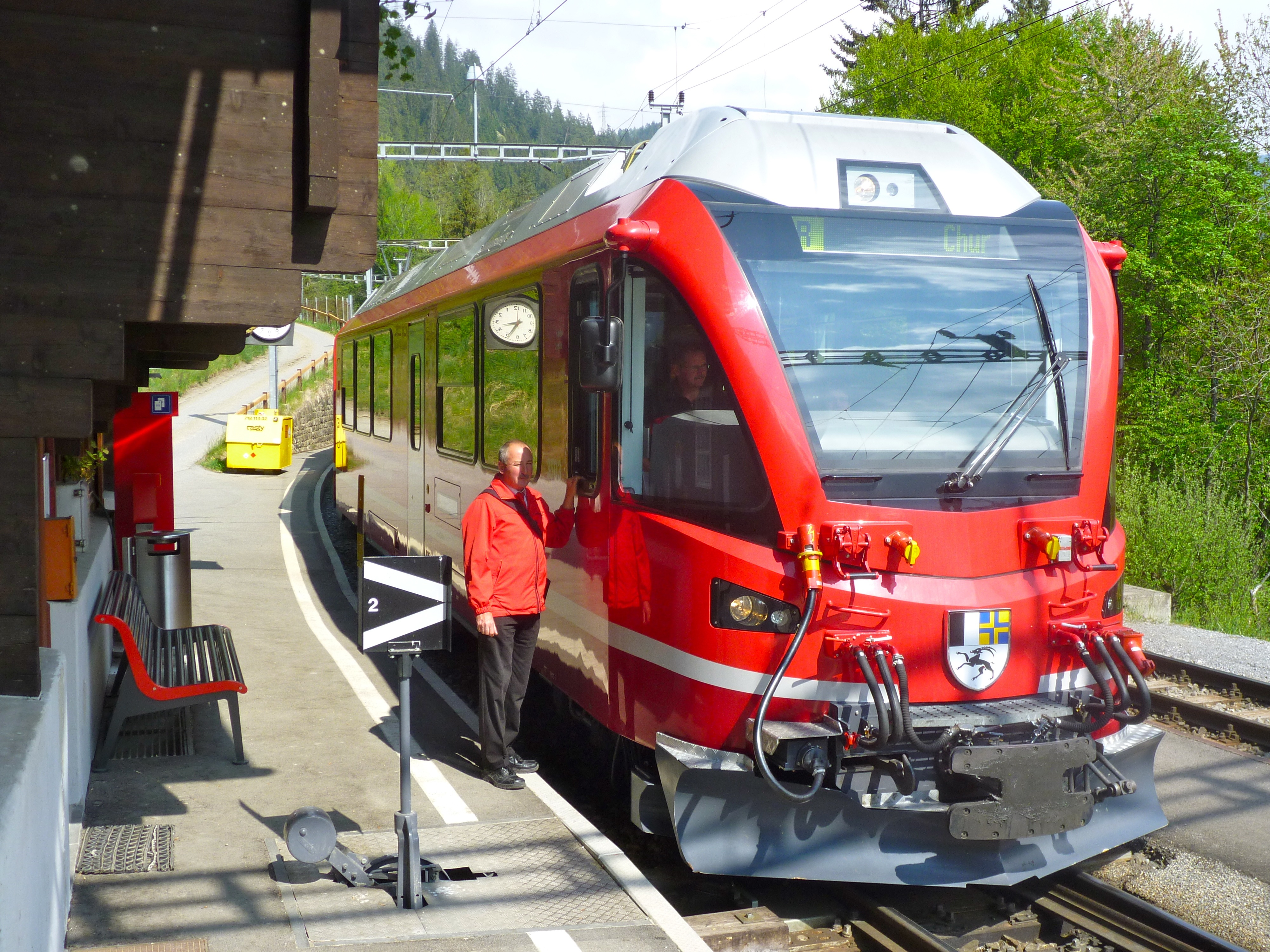 A ABe 8/12 train at station Lüen-Castiel, Railway Chur-Arosa